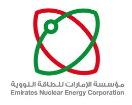 Logo for the Emirates Nuclear Energy Corporation